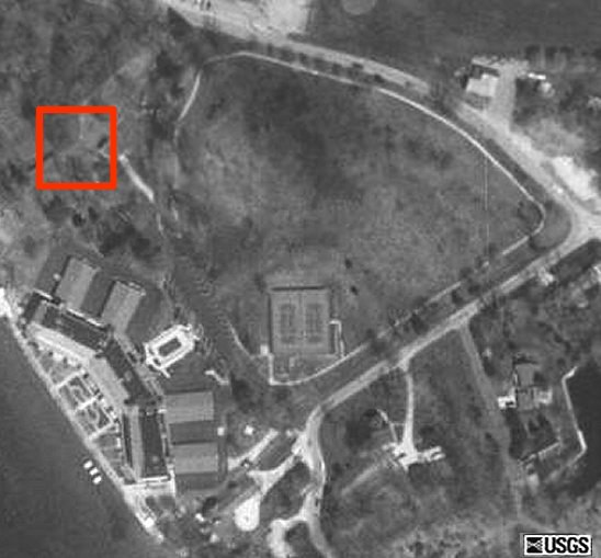 USGS aerial image from TerraServer-USA (now MSR Maps).